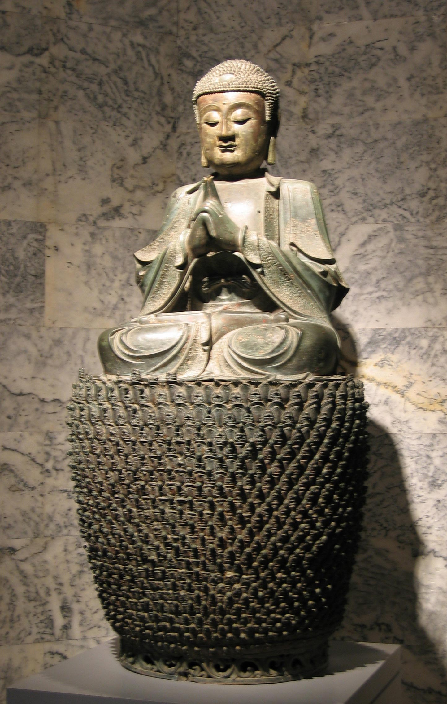 Vairochana in copper alloy, made in China during the Ming dynasty (1368–1644), at the Cantor Center for Visual Arts. From the museum description: "...Here, he is depicted as described in the Brahmajalasutra, seated upon a lotus with 1,000 petals that emit 100,000 Buddhas, each of whom will teach the doctrine to a different universe. "Vairochana is seated with his hands in the gesture of anointing (abhisheka mudra). ... The svastika on his chest represents the Buddhist Wheel of the Law, dharmacakra."